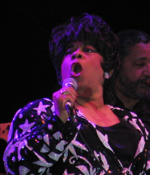 Ruth Brown performing in 2005.